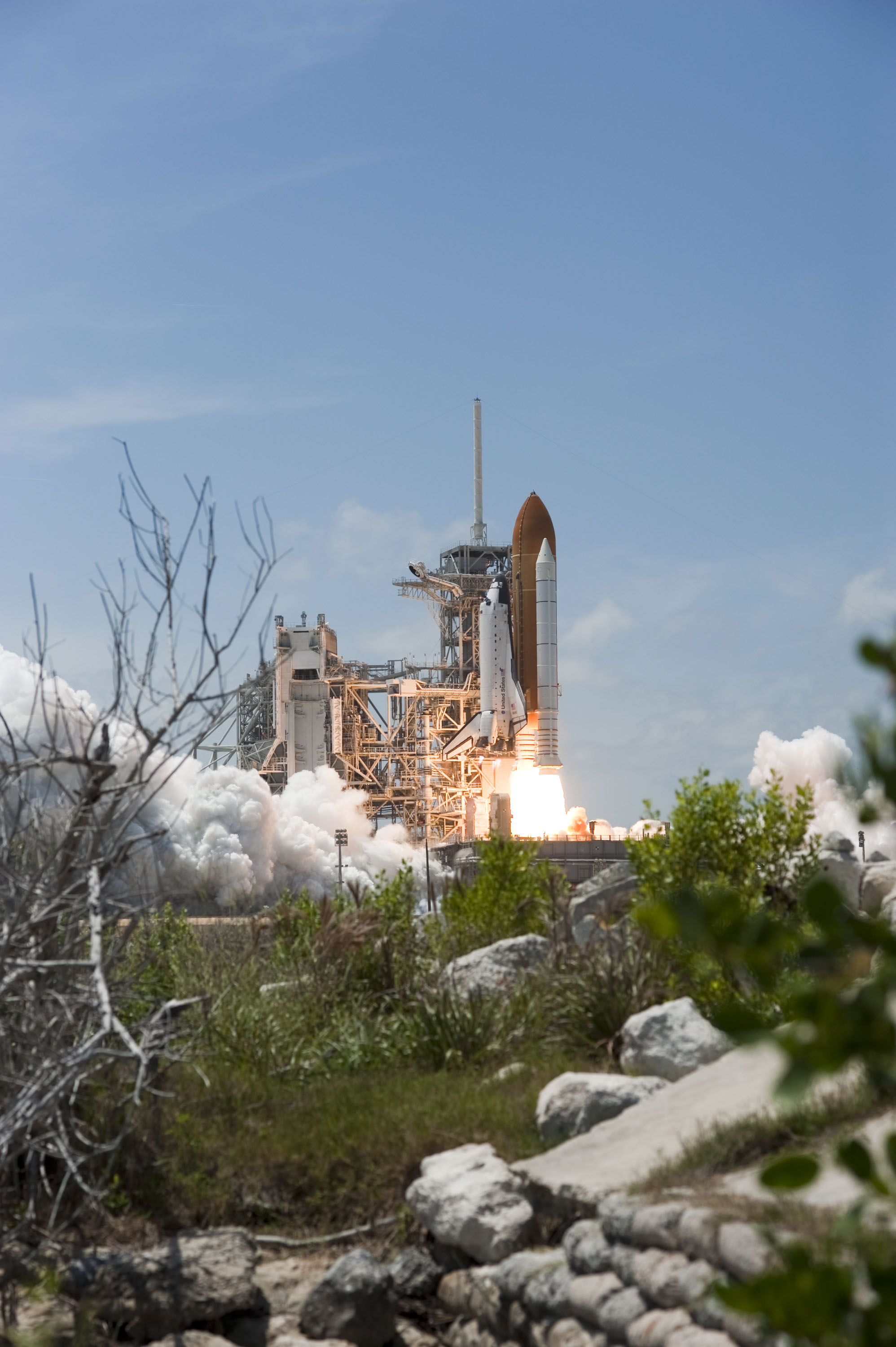 Space shuttle Atlantis and its six-member STS-132 crew head toward Earth orbit and rendezvous with the International Space Station. Liftoff was at 2:20 p.m. (EDT) on May 14, 2010, from launch pad 39A at NASA's Kennedy Space Center. Onboard are NASA astronauts Ken Ham, commander; Tony Antonelli, pilot; Garrett Reisman, Michael Good, Steve Bowen and Piers Sellers, all mission specialists. The crew will deliver the Russian-built Mini-Research Module 1 (MRM-1) to the International Space Station. Named Rassvet, Russian for "dawn," the module is the second in a series of new pressurized components for Russia and will be permanently attached to the Earth-facing port of the Zarya Functional Cargo Block (FGB). Rassvet will be used for cargo storage and will provide an additional docking port to the station. Also aboard Atlantis is an Integrated Cargo Carrier, or ICC, an unpressurized flat bed pallet and keel yoke assembly used to support the transfer of exterior cargo from the shuttle to the station. STS-132 is the 34th mission to the station and the last scheduled flight for Atlantis.